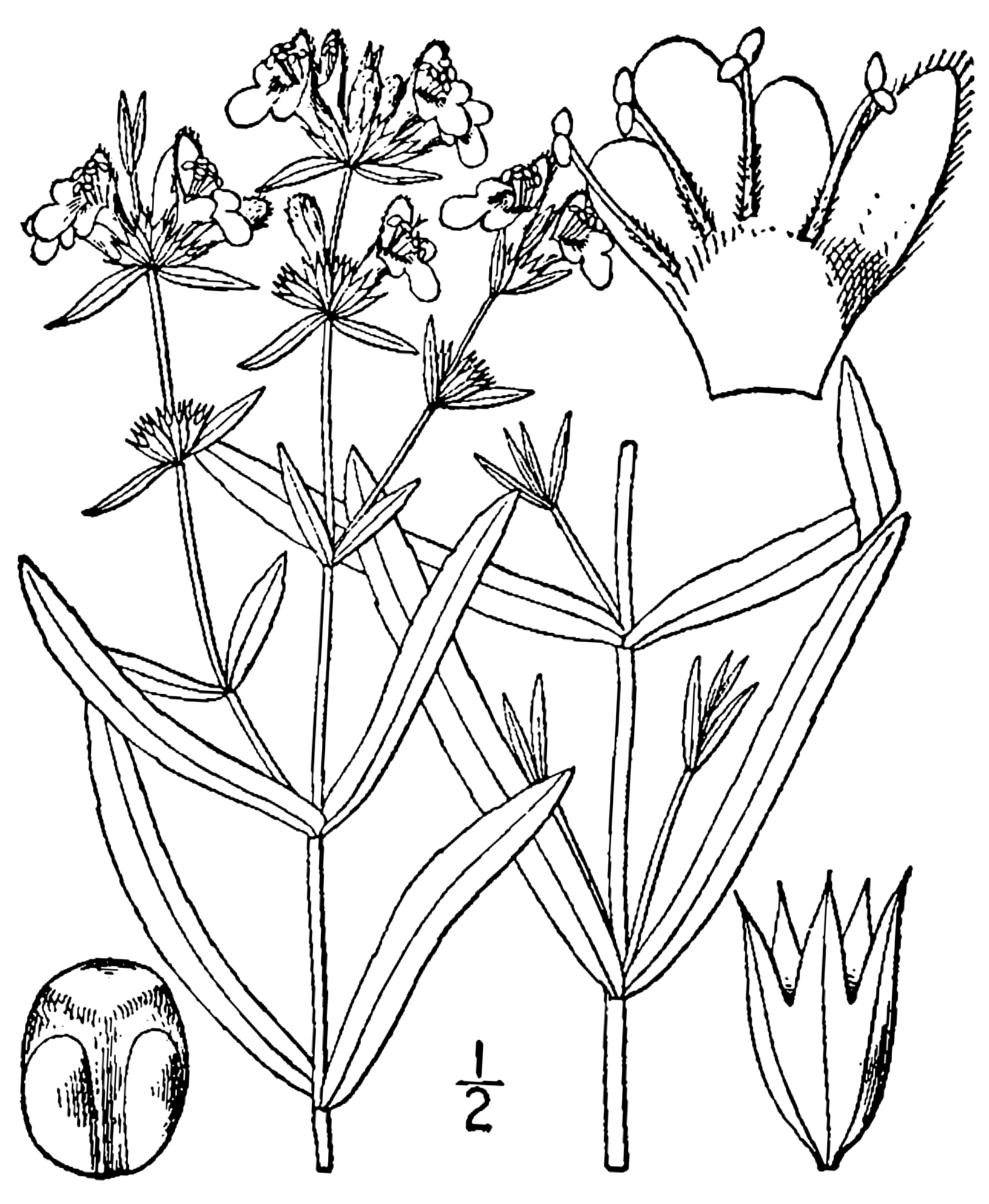 Stachys hyssopifolia Michx. - hyssopleaf hedgenettle